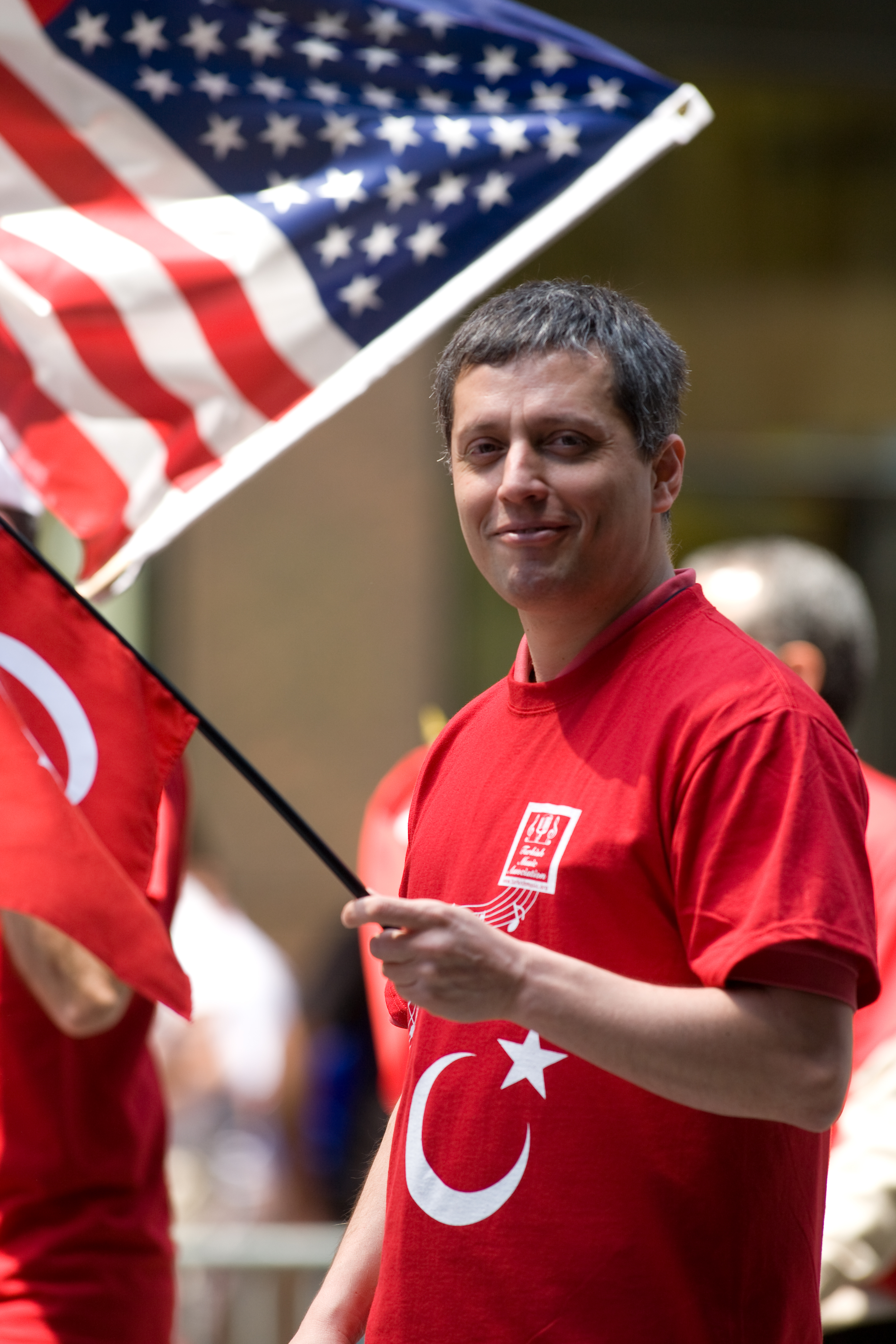 Turkish Parade, New York 2009.